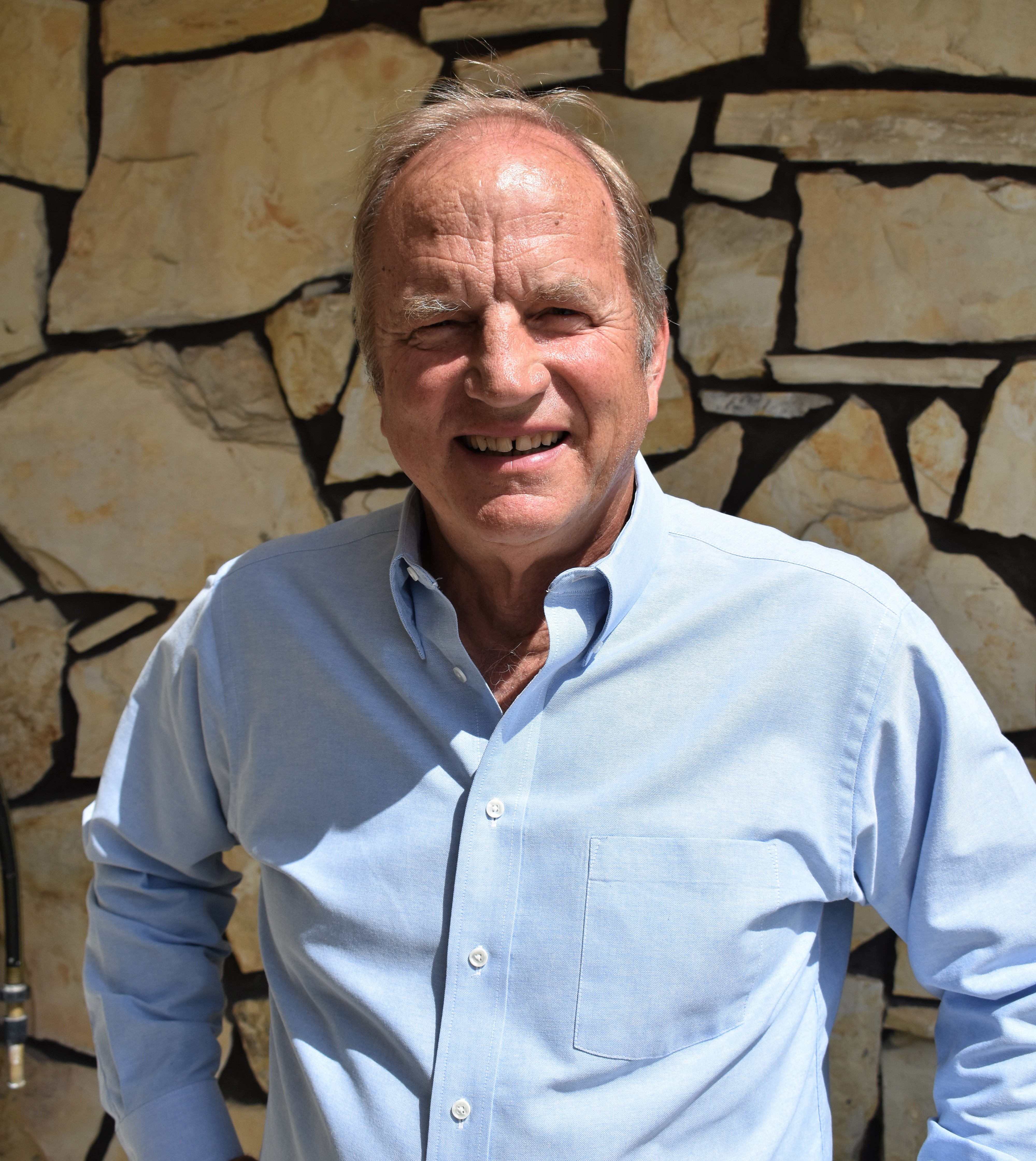 Chris Norby's Headshot